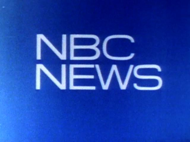 Video capture of NBC News logo.